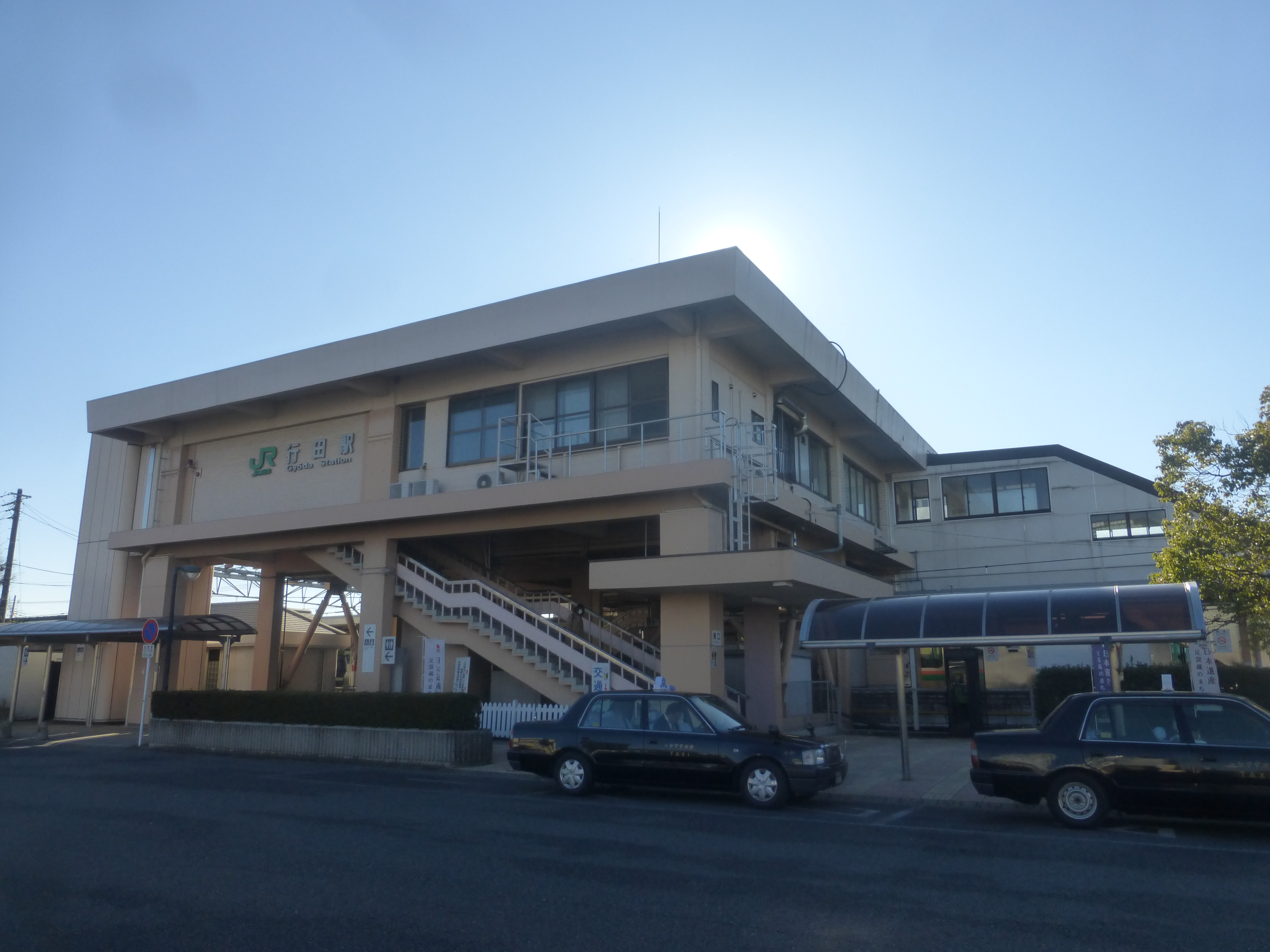 Gyōda Station ticket east exit (行田駅の東口) Panasonic Lumix DMC-TZ35